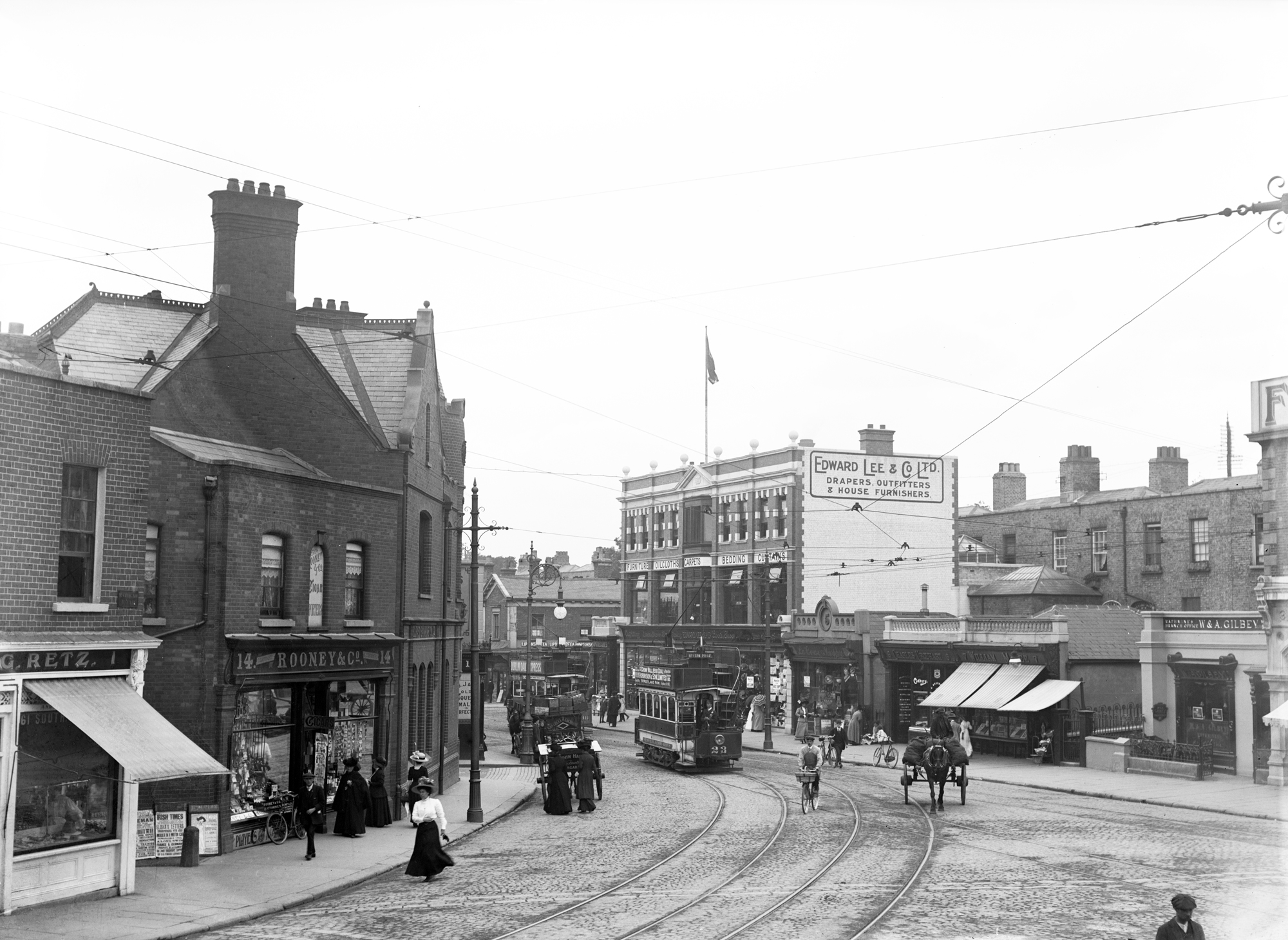 What a joyous junction! There are some news posters between Retz and Rooneys at the left that might be a help in dating this one. Have a look at the large size. The headlines I can make out are: Elisha's Letters Murder in a Motor Car [Remarkable Trial?] A Long Swim France & Germany Now, I found an article entitled A Long Swim in the Irish Times from Saturday 7 July 1906: "Yesterday Jebez Wolffe, the well-known swimmer, swam from Dover to Ramsgate, a distance of 18 miles in 6 hours 35 minutes, thus breaking Captain Webb's record of eight and a half hours over the same course..." And I think the poster says Saturday! However, the next word looks like August to me, so I kept searching and this looks fairly promising from Saturday, 26 August 1911: "MURDER IN A MOTOR CAR. The trial of Mr. Beattie for the murder of his wife by shooting her while travelling in a motor car, was resumed to-day..." Can you find other clues in this photo that might confirm the August 1911 date? August is looking promising because Edward Lee & Co. behind tram no. 23 are selling things for the Horse Show - always held at the RDS in August. And 1910 is sculpted under the pediment of the Lee establishment. So it's just 1911 we need to confirm (or not)! Either way, think this is a great shot, and as always, willing to be outright contradicted... Date: August 1911?? NLI Ref.: Eas 1934